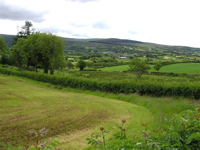 Reaghan Townland Looking south-east